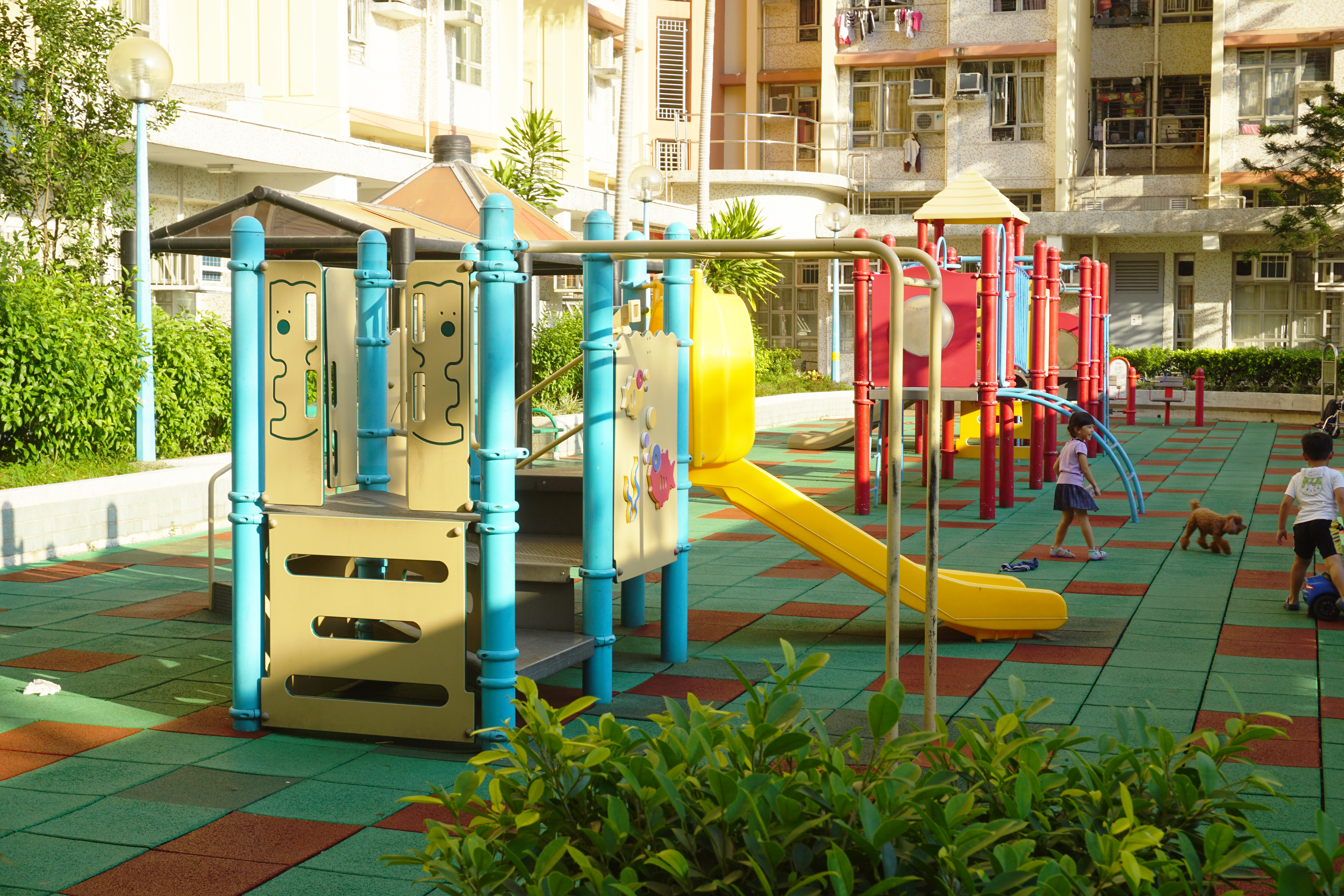 Ping Tin Estate in Lam Tin, Hong Kong.